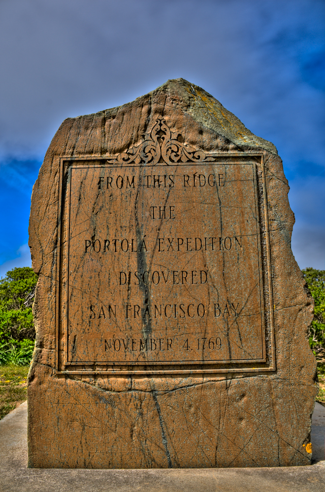 Portola Expedition , Point of Bay Area Discovery